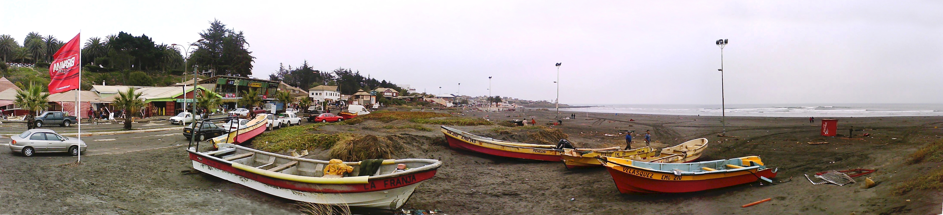 Full view of Main Beach of Pichilemu after 2010 Chilean earthquake.